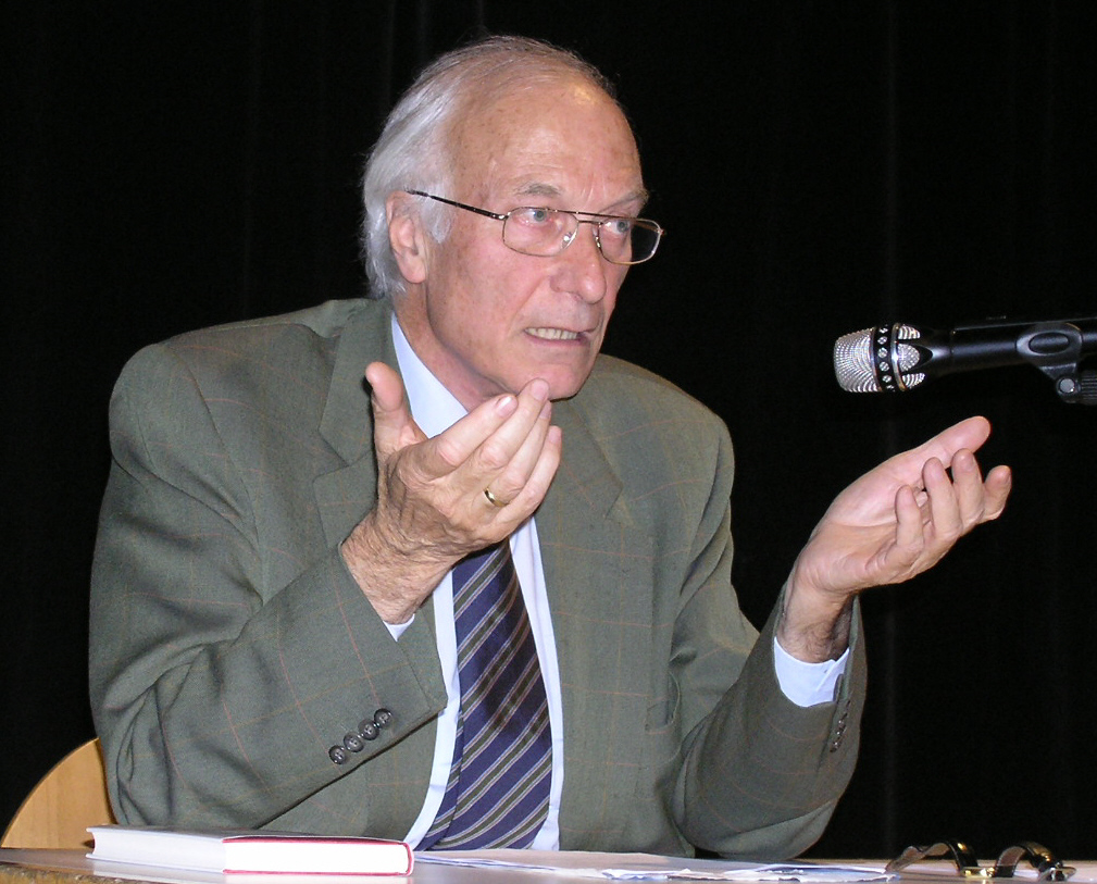 Bernhard Bueb during a lecture in Langenau/Württemberg (Germany) 11 October 2006 Date: 11 October 2006